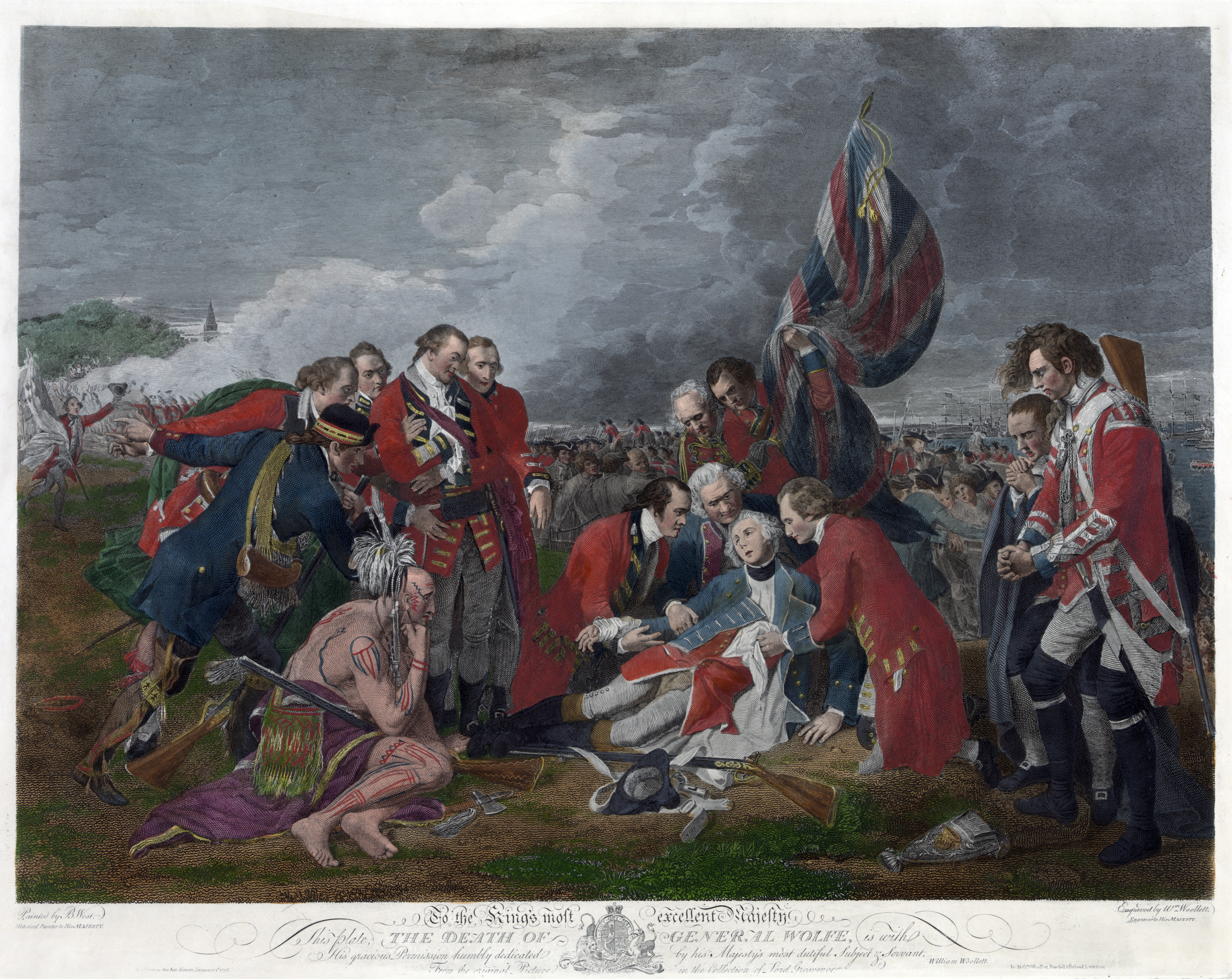 The death of General Wolfe / painted by B. West ; engraved by Wm. Woollett